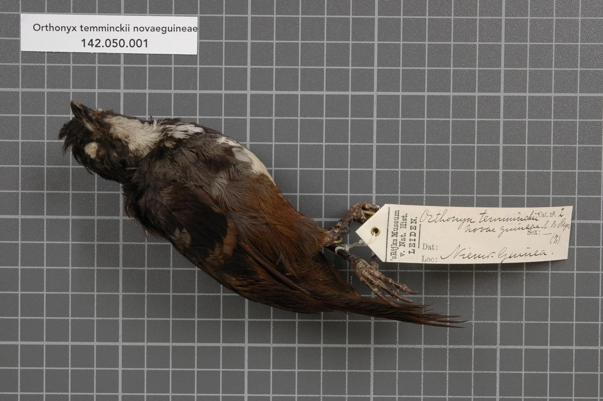 Orthonyx temminckii novaeguineae Meyer, 1874